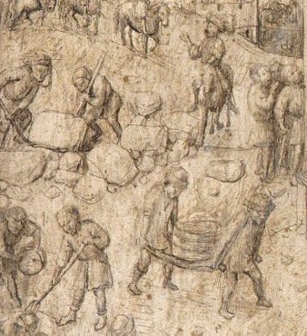 crop of